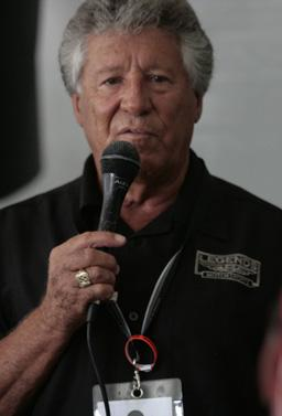 Mario Andretti at the Barber Motorsports Park Legends of Motorsport historic racing event in 2010.